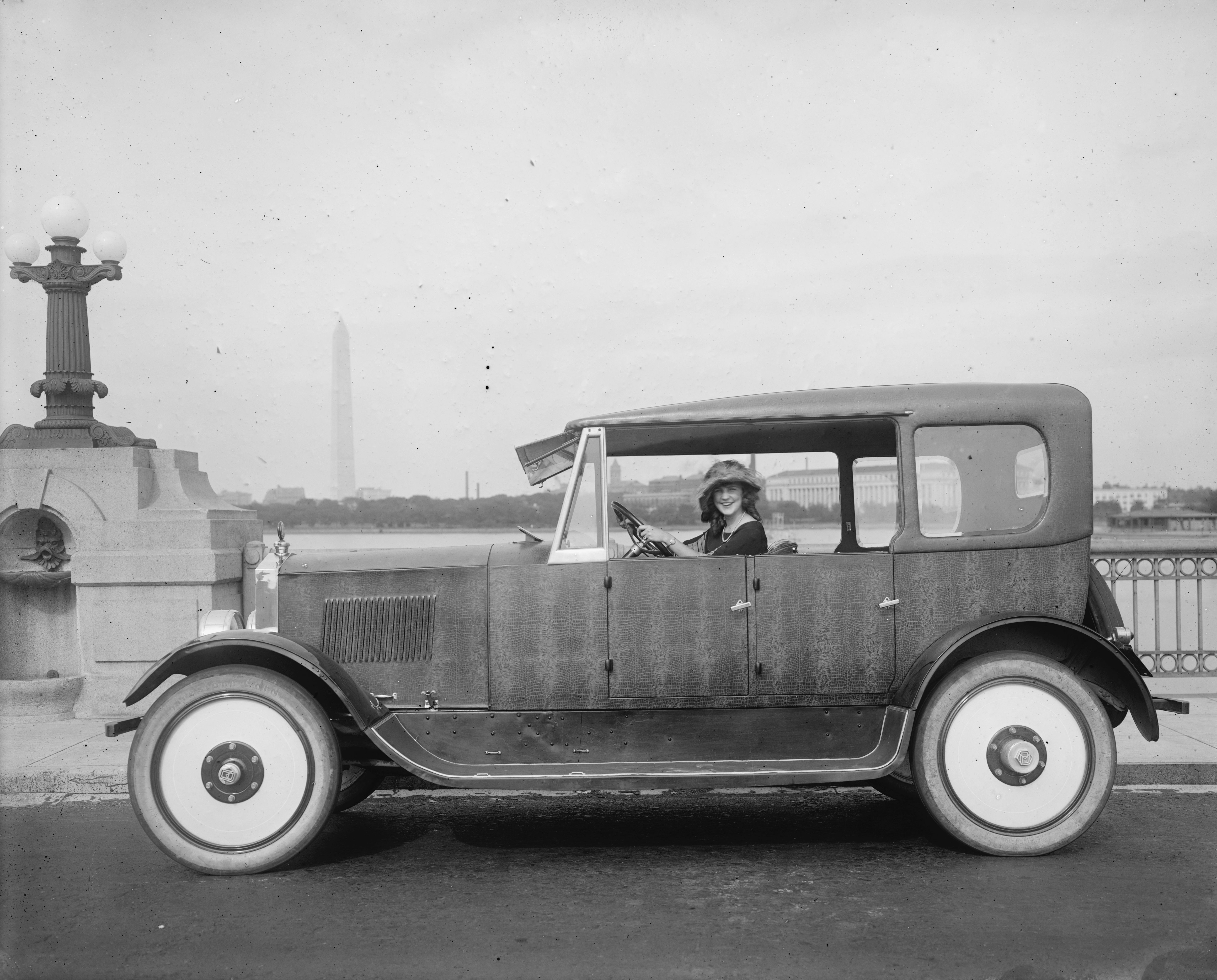 Margaret Gorman in Birmingham Motors automobile. Washington Monument in the background.